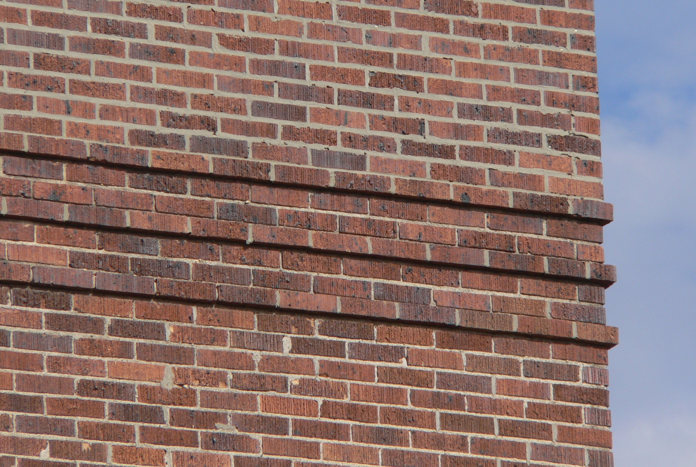 City auditorium, former city hall, in Hartington, Nebraska: third in a series of three photos zooming in on brick bands near top of southeast corner of building.